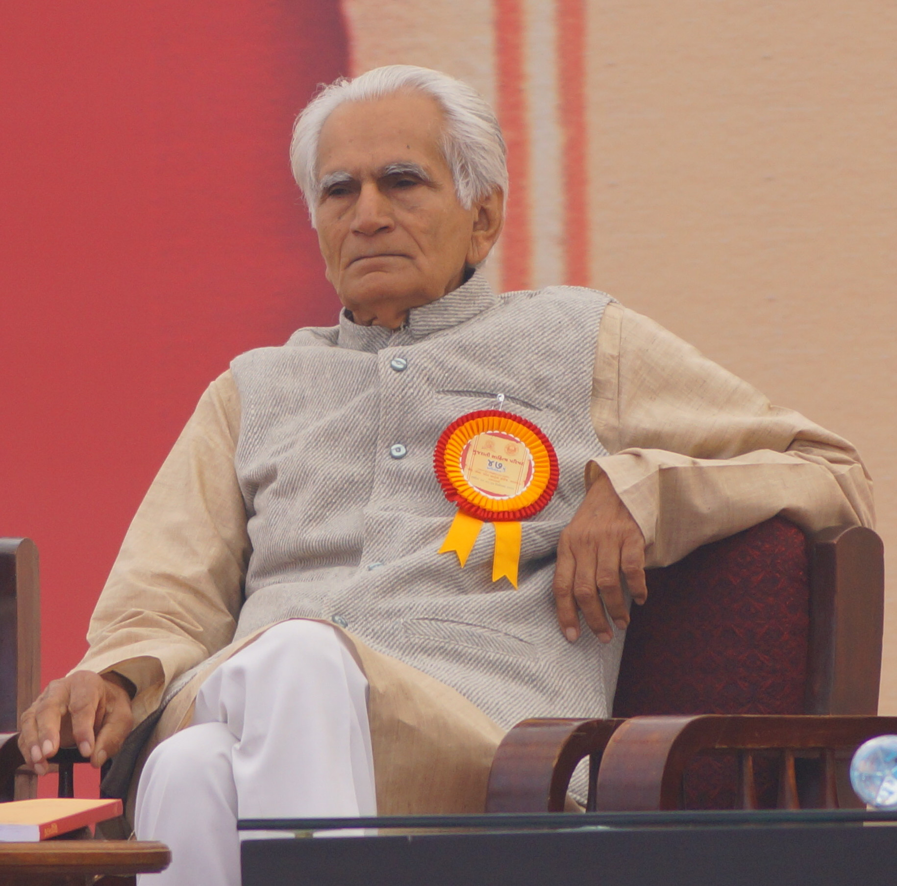 GSP 47th Adhiveshan - Day 3 - 5th Meet and Closing, Raghuveer Chaudhari